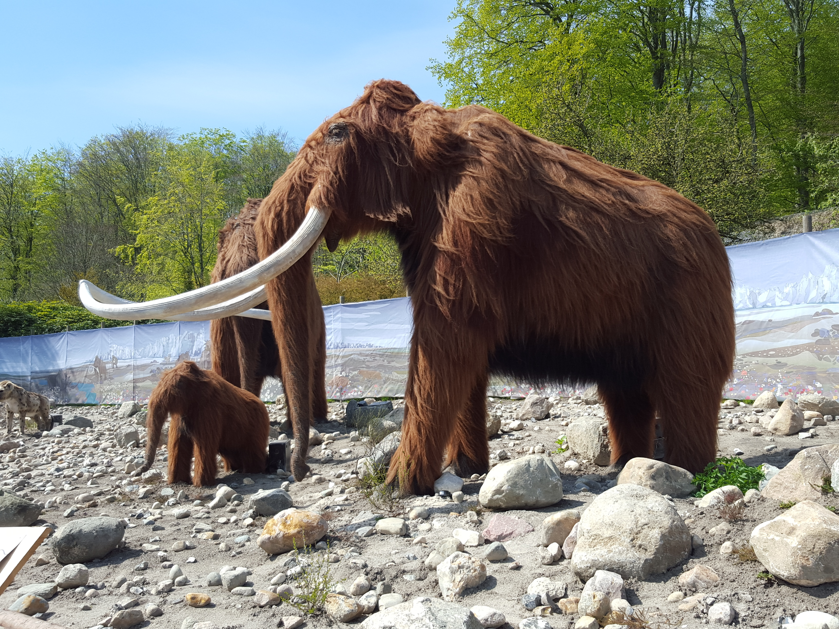 Wooly Mammoth in Aalborg Zoo Ice Age exhibition, May 2016